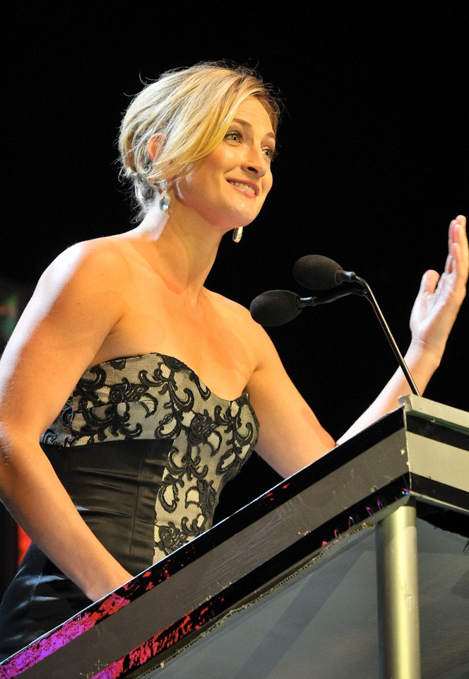 Zoë Bell at the 1st Streamy Awards in 2009.